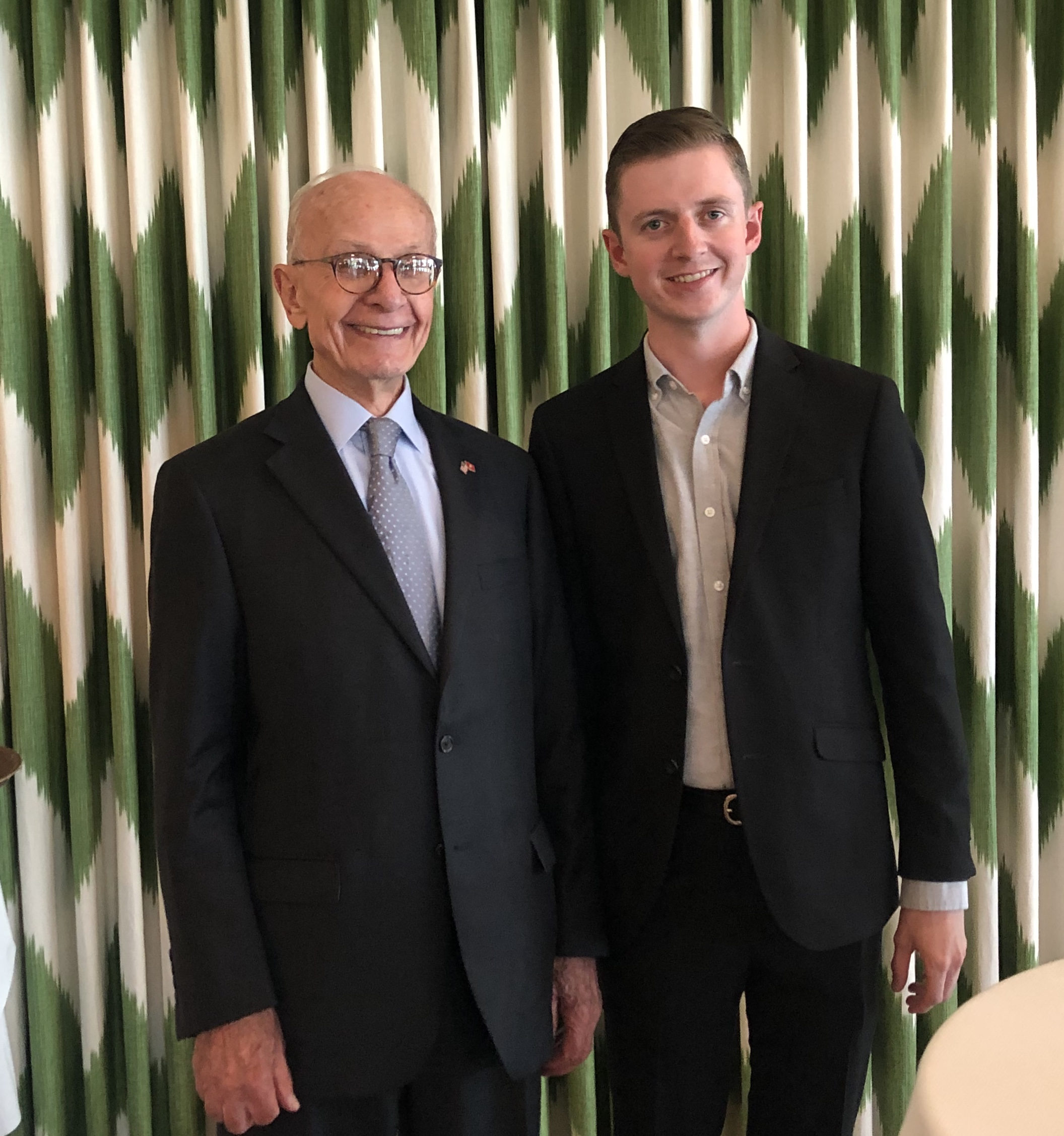 Judge David S Doty with his grandson, Peter, in June 2019